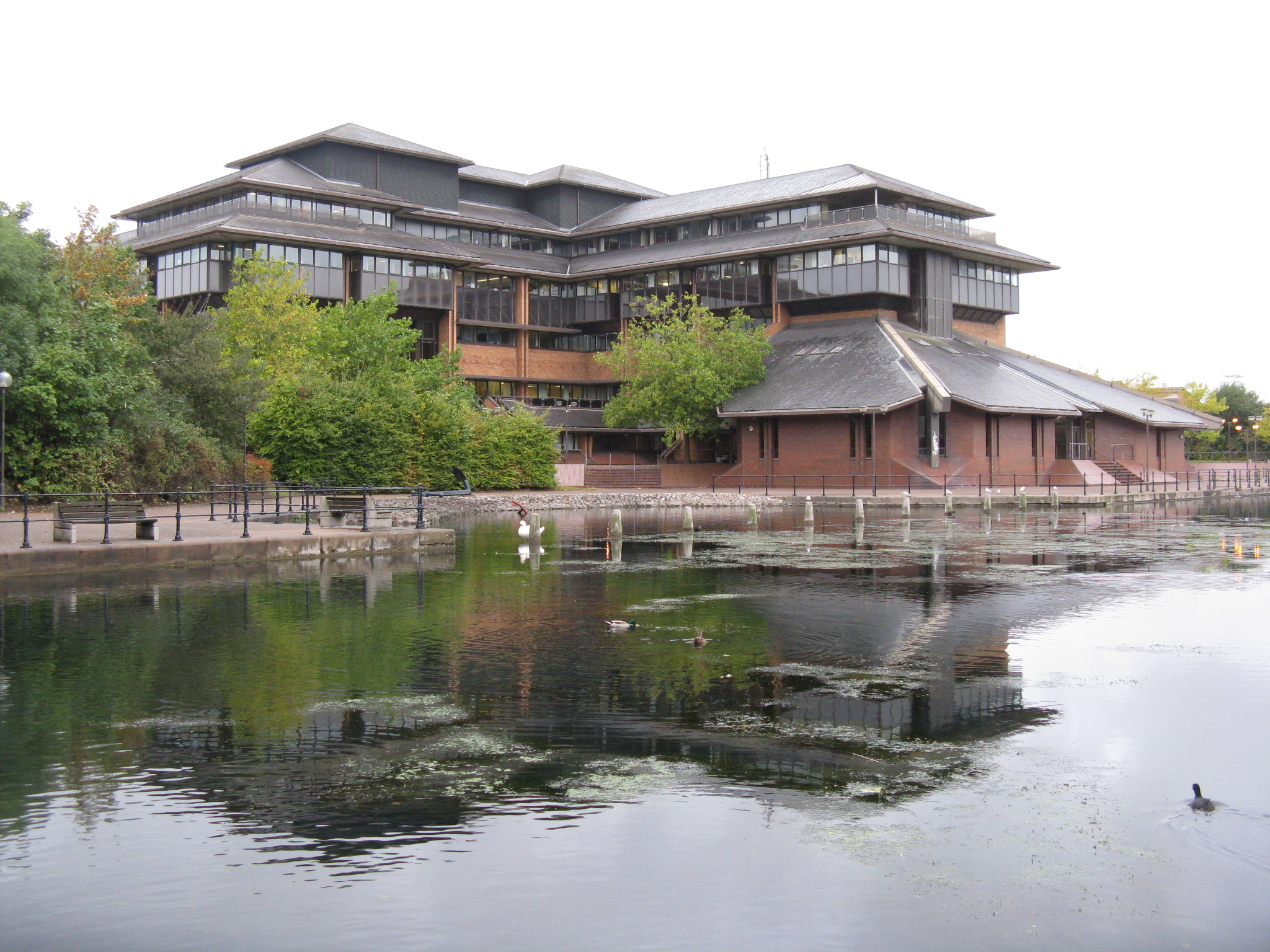 View from south east of County Hall, Cardiff Bay, Cardiff, Wales